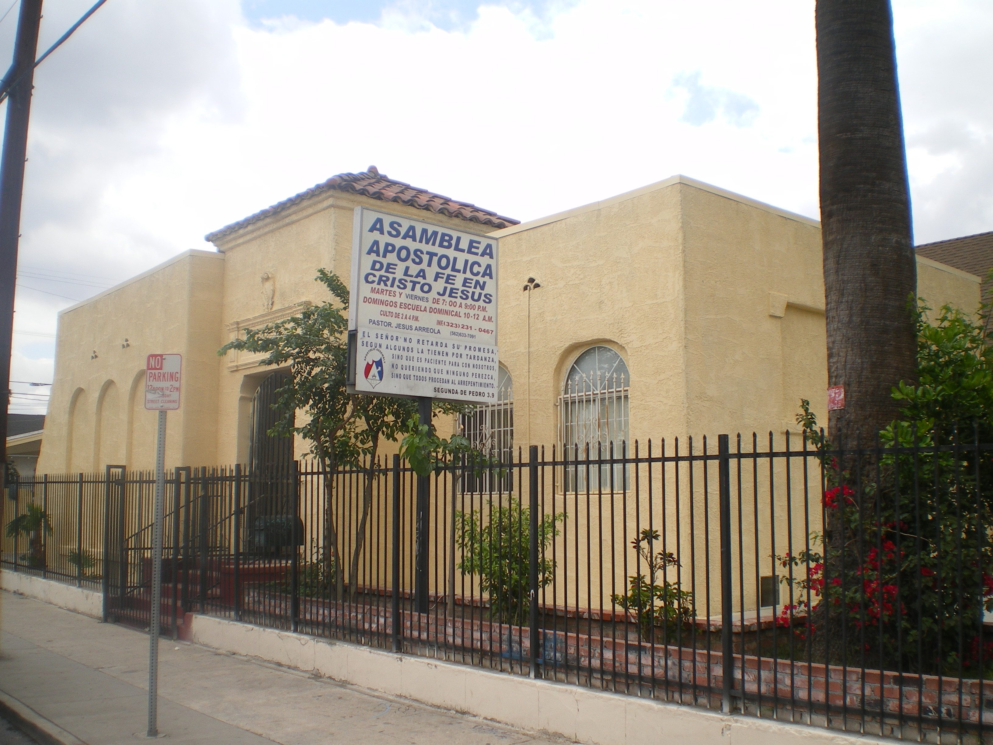 Former Helen Hunt Jackson Branch Library, 2330 Naomi St., Los Angeles, California (now an Asamblea Apostolico de la Fe in Cristo Jesus church)